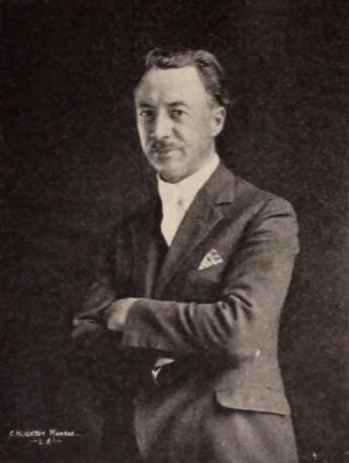 English film director David Smith (1872 - 1930), on page 77 of the September 10, 1921 Exhibitors Herald.